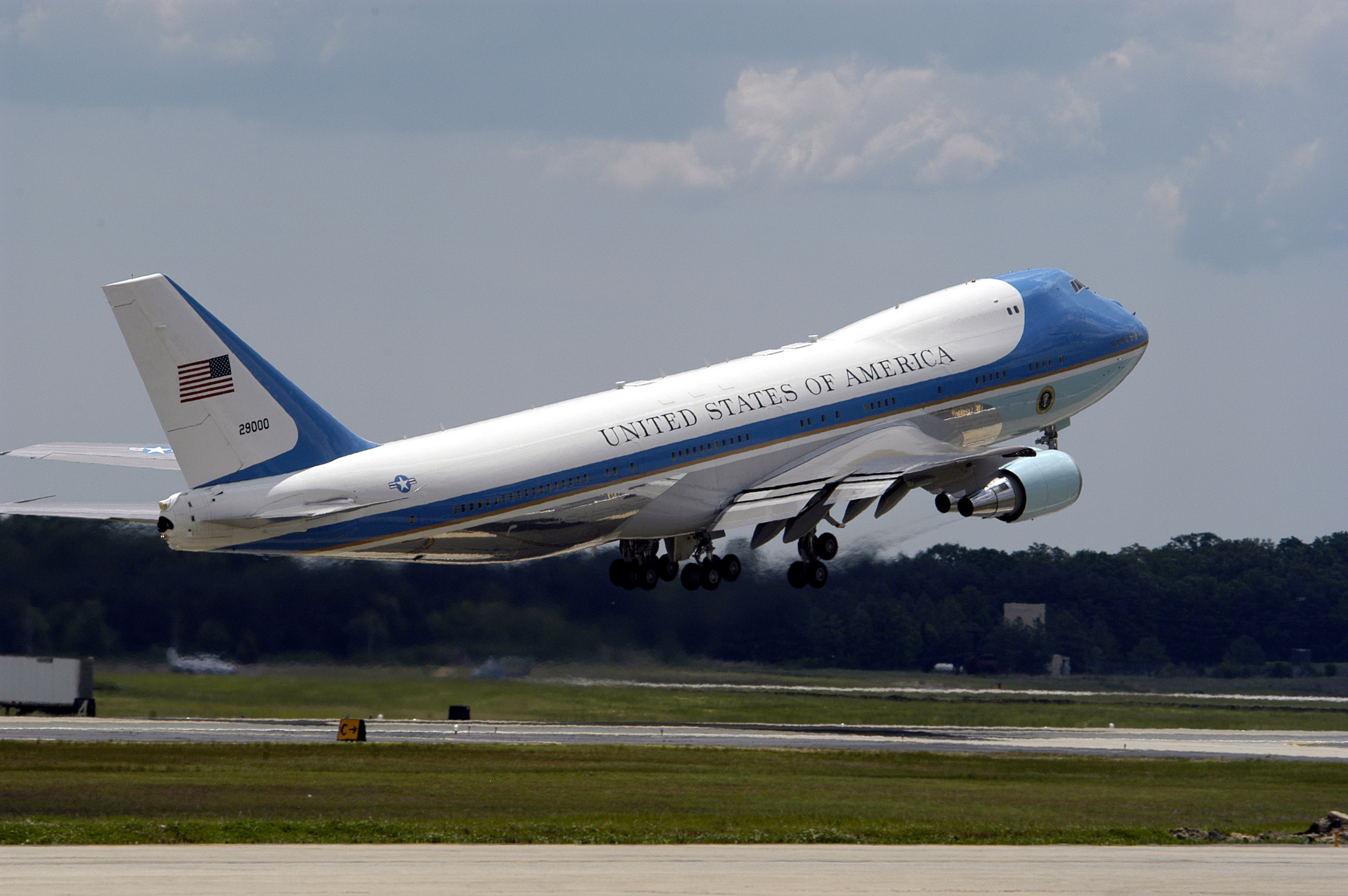 Andrews Air Force Base, Md. (May 21, 2005) - Air Force One takes off from Andrews Air Force Base, Md., during the 2005 Joint Service Open House. President George W. Bush was en route to Grand Rapids, Mich., to give a graduation speech to the 2005 graduates of Calvin College. The 89th Presidential Airlift Group at Andrews Air Force Base is responsible for Air Force One, which is housed in a 140,000-square-foot maintenance and support complex. The Joint Services Open House, held May 20-22, showcased civilian and military aircraft from the Nation’s armed forces which provided many flight demonstrations and static displays. U.S. Navy photo by Photographer’s Mate 2nd Class Daniel J. McLain (RELEASED)